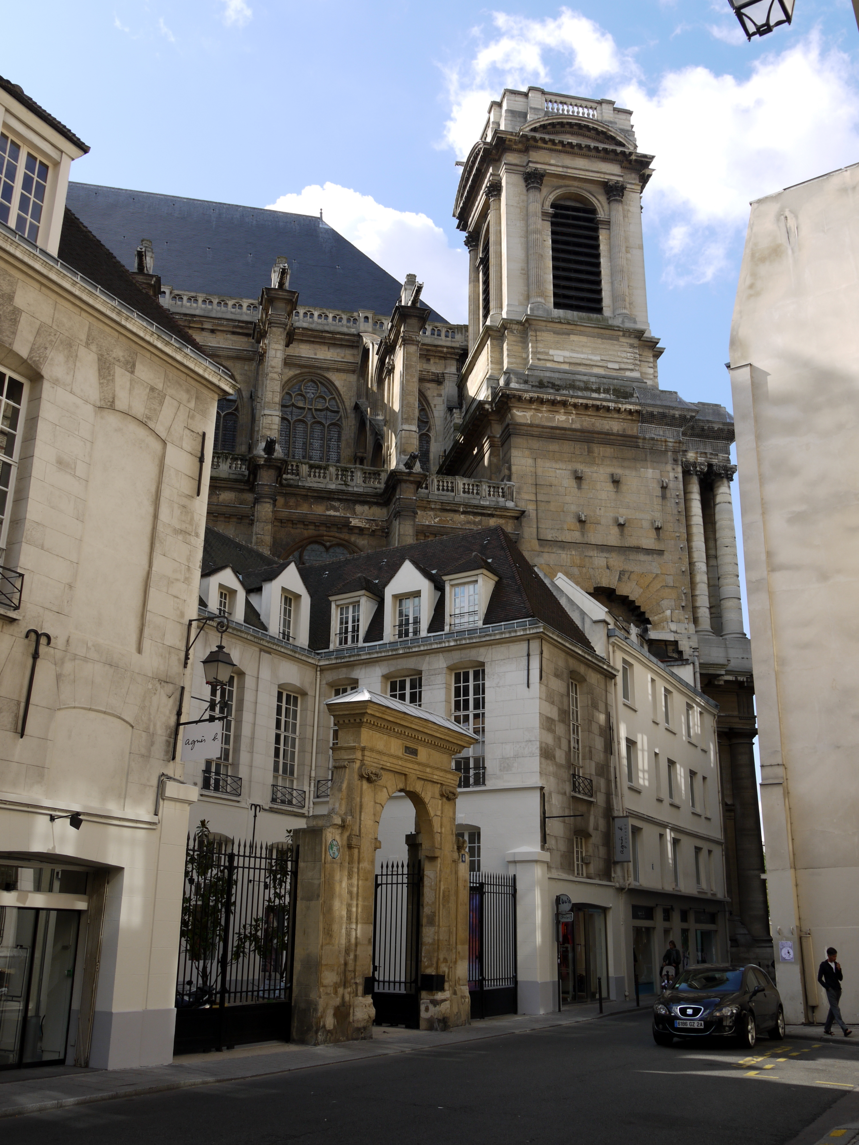 rue du Jour, Paris